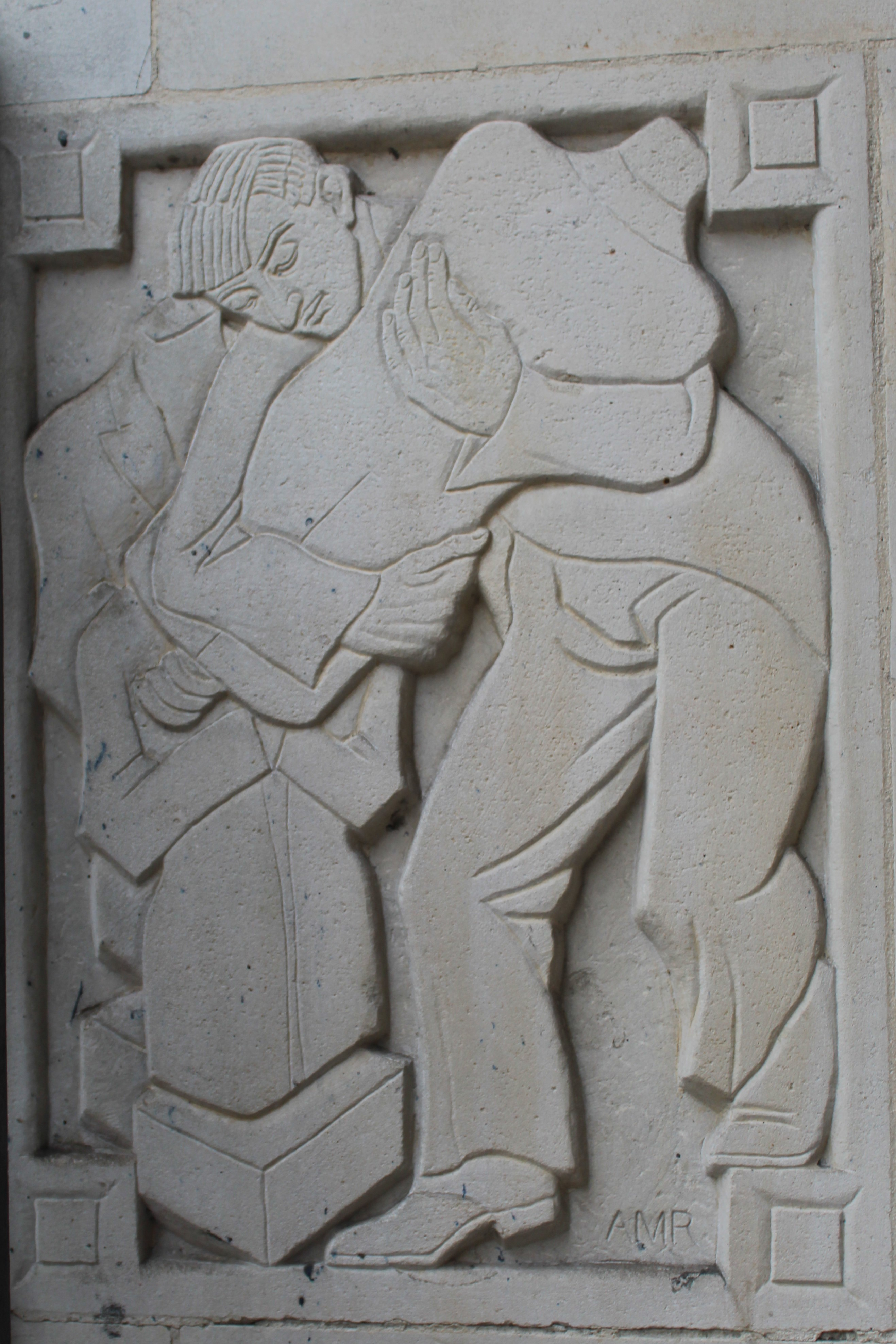 Sculpture panel by Adolfine Mary Ryland (1903-1983) on the external wall of the former St Martin's School of Art on the Charing Cross Road London, created c.1937-1939